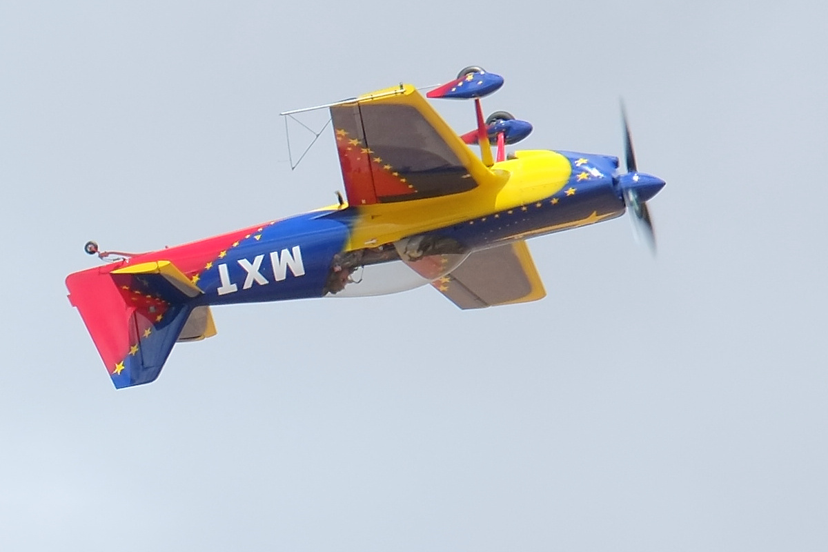 MX2 in inverted flight